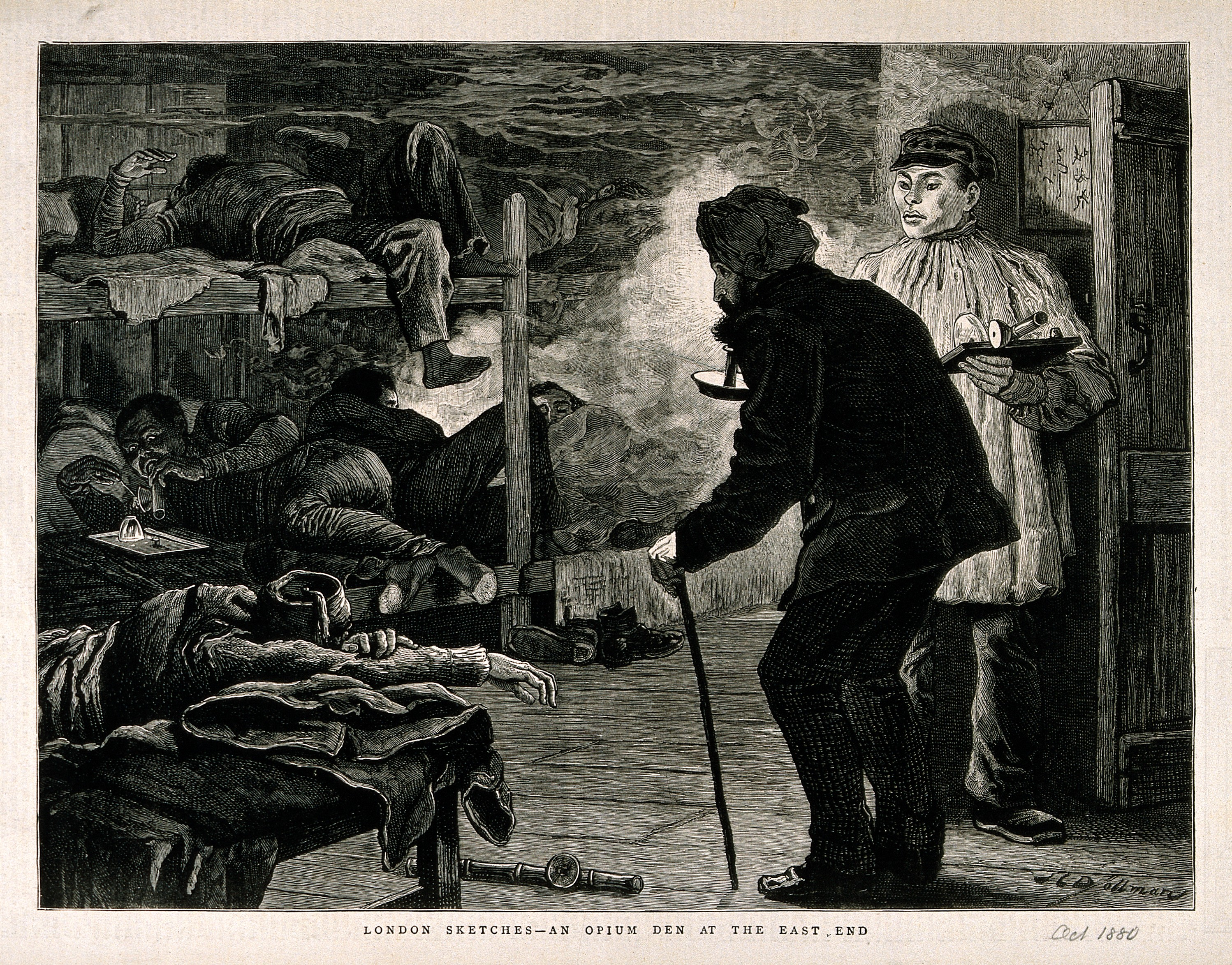 An opium den in London's East End with men lying on wooden bunks as a smoker enters. Wood-engraving, c. 1880, after J. C. Dollman. Iconographic Collections Keywords: John-Charles Dollman; Opium